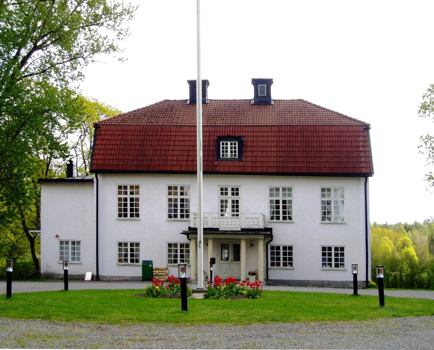 School for agriculture, Haninge municipality, Sweden